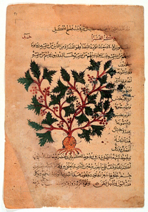 Arabic translation of Dioscorides’ "De Materia Medica" - Vitis sp.